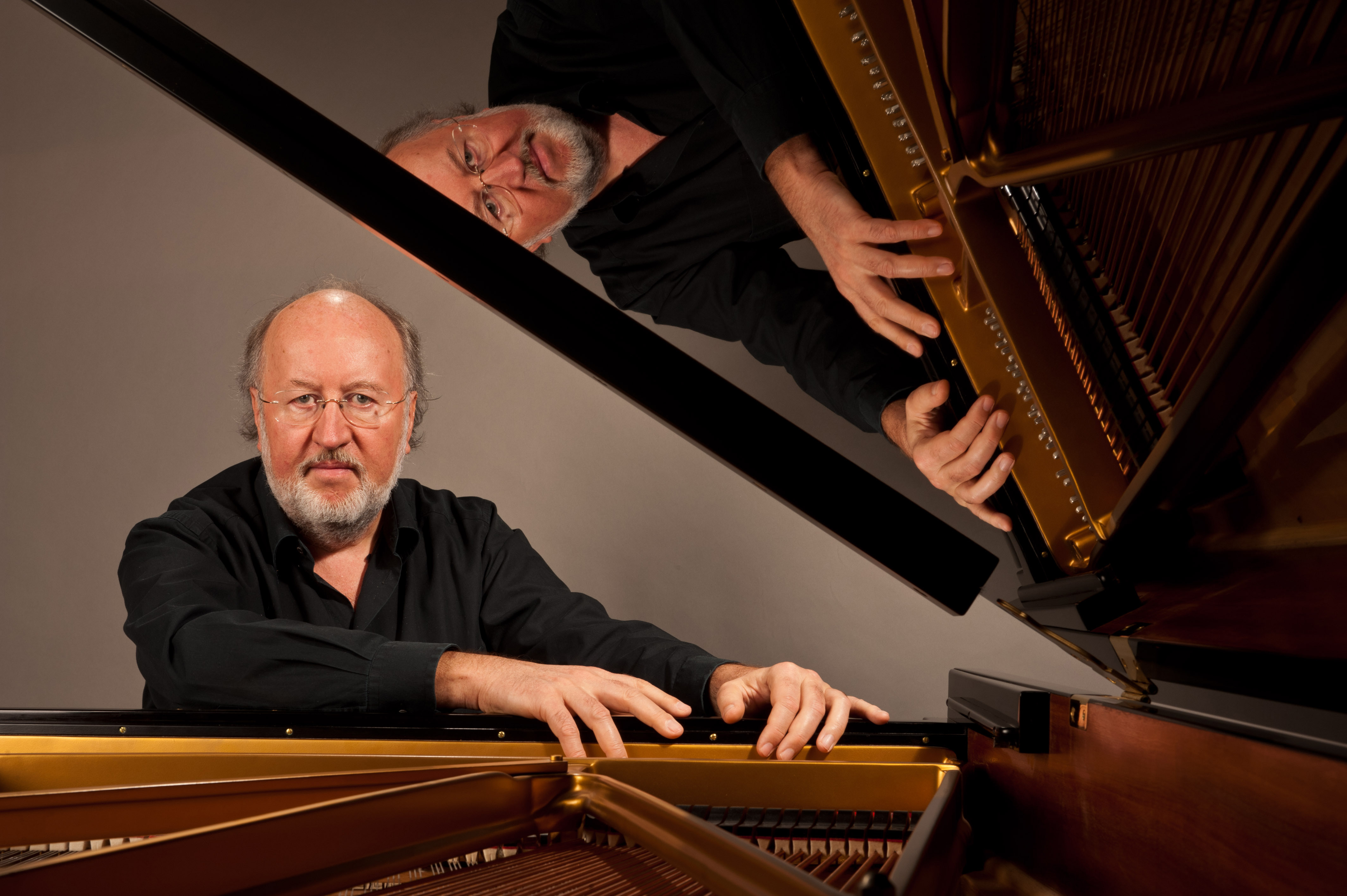 Rainer Brüninghaus, Jazzpianist